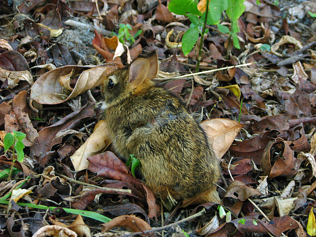 Sylvilagus brasiliensis being freed in the wild in Porto Seguro - BA - Brazil